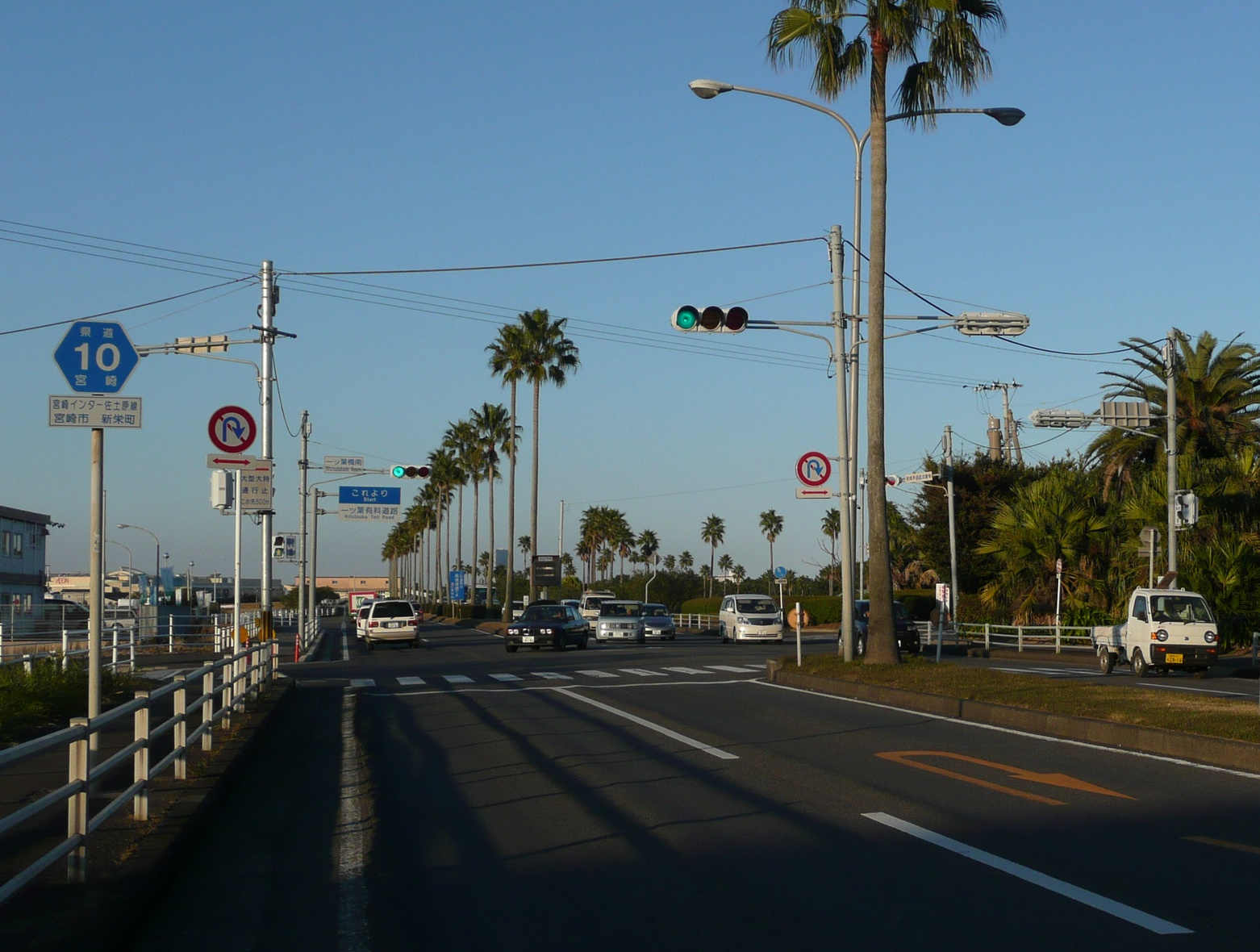 Miyazaki Prefectural Road 10 (Shinei-cho, Miyazaki City, Japan)